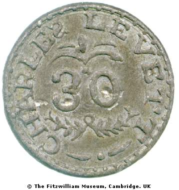 60 bushels hops token. Exden Hop Farm, Newenden, Kent, Charles Levett (owner). 36 mm x 36 mm. weight: 10.61 grams